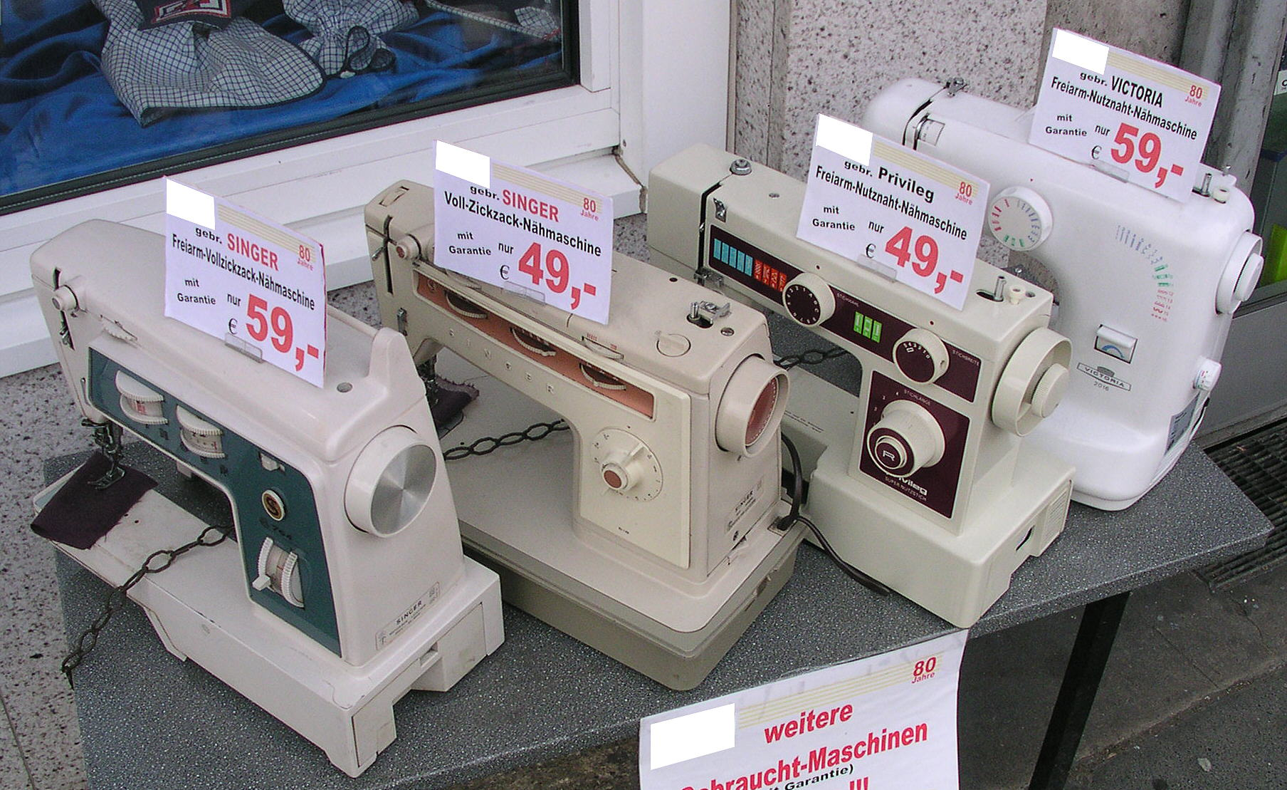 4 used sewing machines